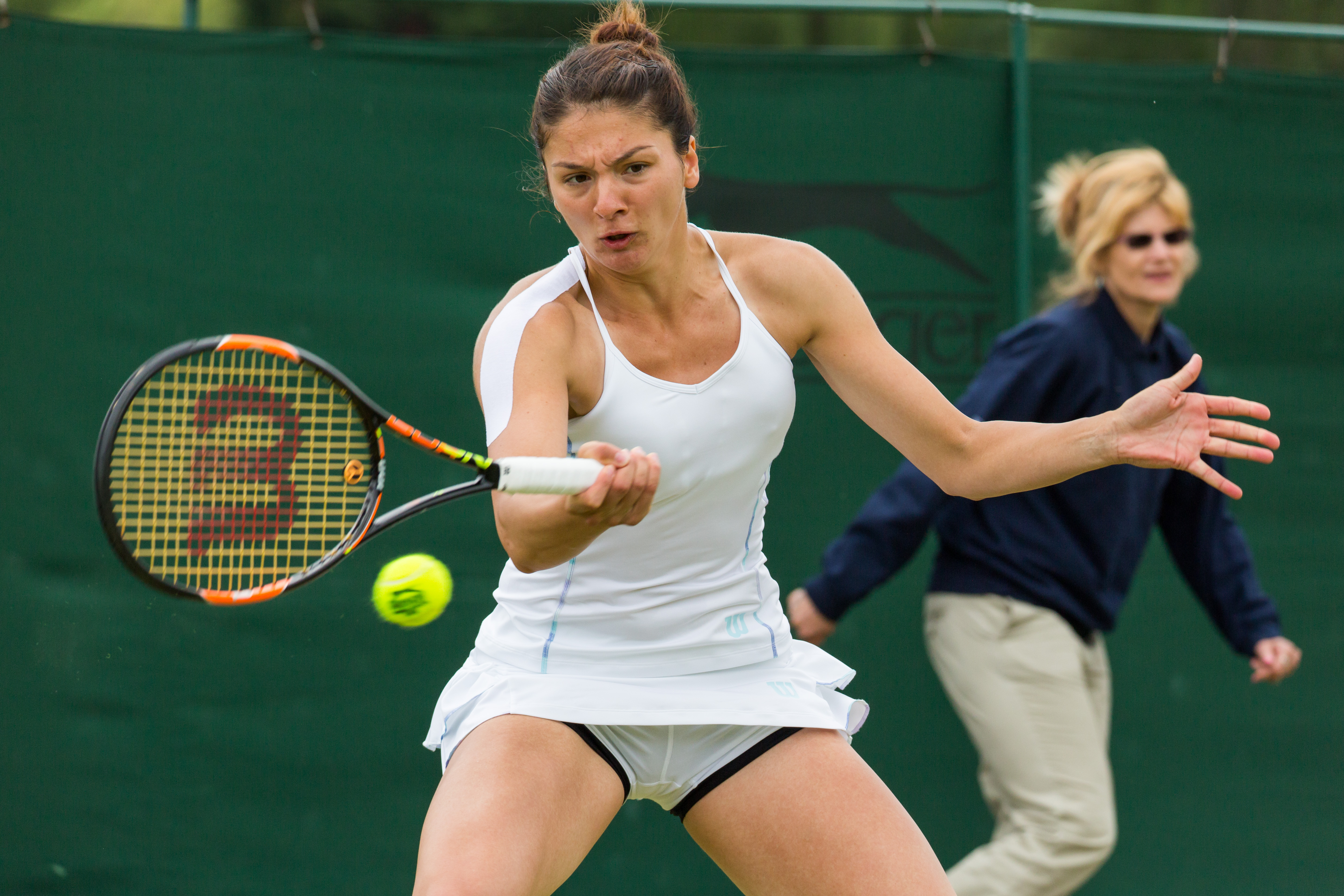 Margarita Gasparyan competing in the first round of the 2015 Wimbledon Qualifying Tournament at the Bank of England Sports Grounds in Roehampton, England. The winners of three rounds of competition qualify for the main draw of Wimbledon the following week.